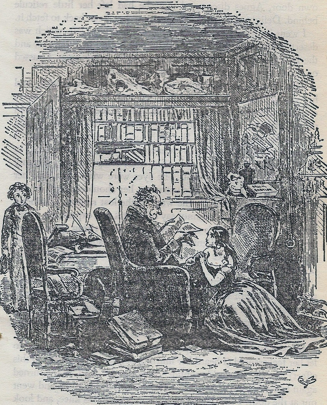 Dr Strong and his young wife by the fireside, by Phiz